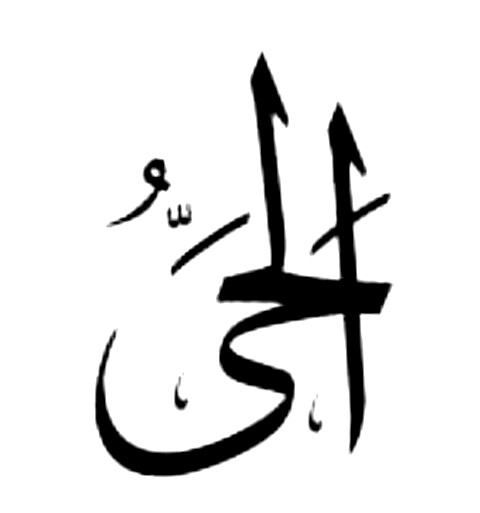 Al-Hayy / The Living is a name of God in Islam, is a name of Allah.